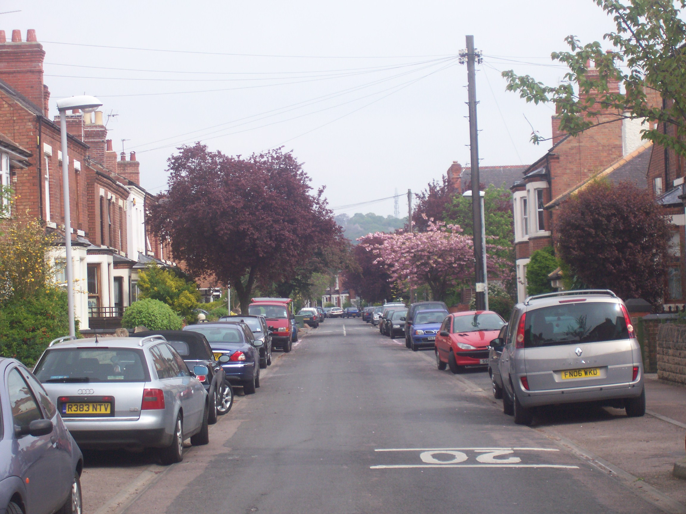 Julian Road in Lady Bay, West Bridgford, taken by me in April 2007.